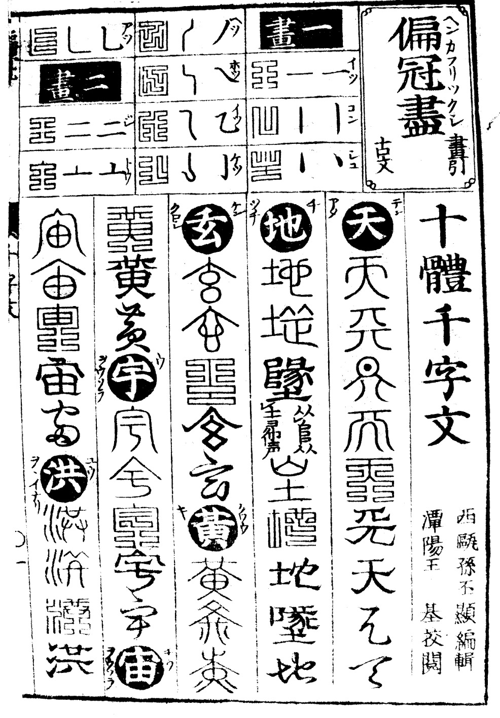 Page of Thousand Character Classic, with different styles for each character. Japanese document of 1756